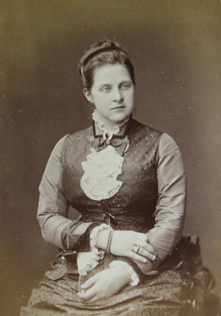 Όλγα Κωνσταντίνοβνα της Ρωσίας, Αντιβασίλισσα της Ελλάδας